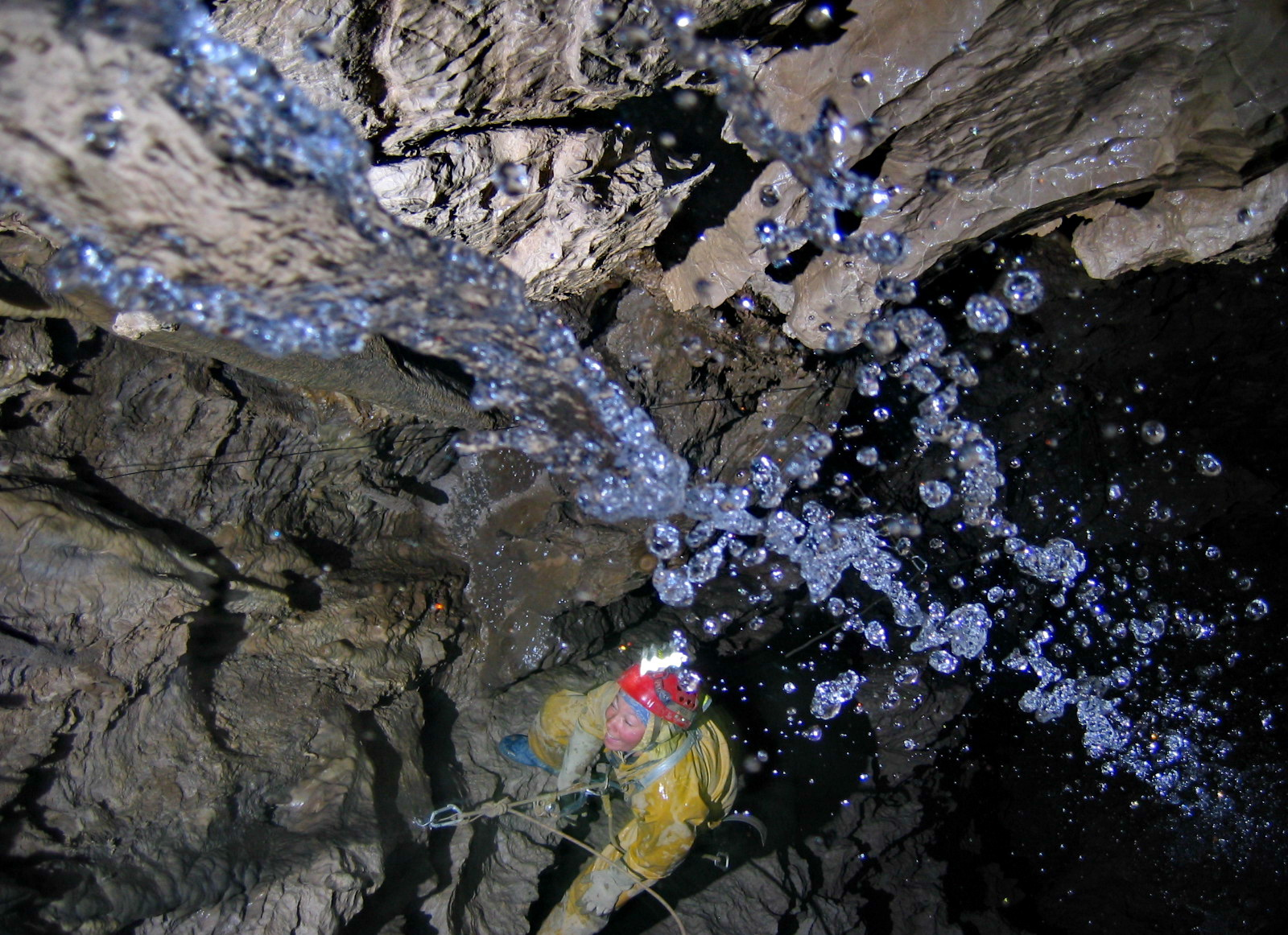 Krubera-Voronya Cave. Well Fartuk. Depth of 1340 meters. Speleologist Maria Plotnikova (Moscow). 2007. Expedition of the Ukrainian Speleological Association.